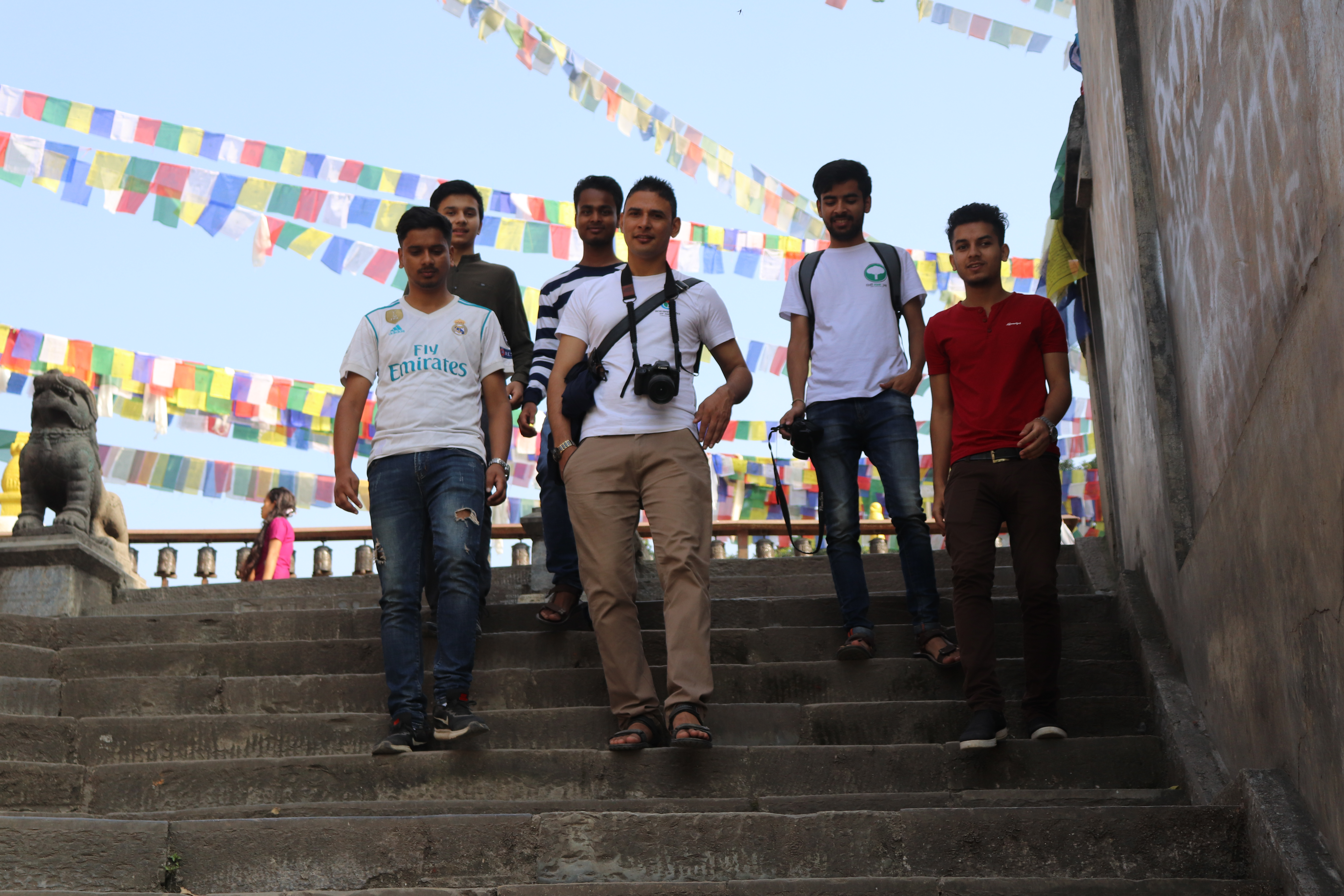 Photowalk during Wiki Loves Monuments in Nepal 2018